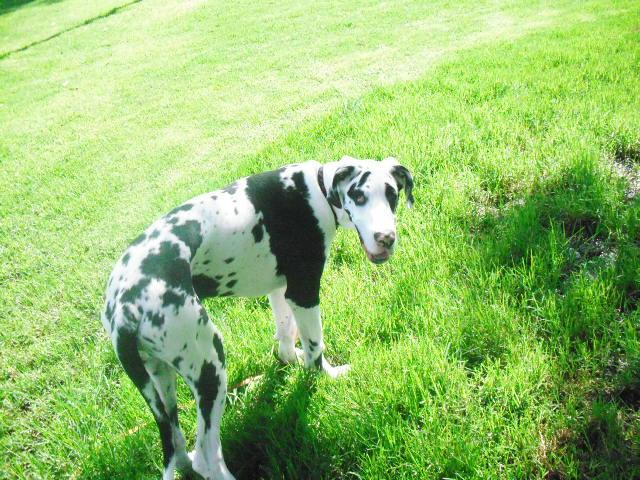 A Harlequin Great Dane Puppy